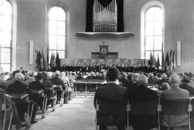 St. Paul's Church Frankfurt, opening of gymnasts convention